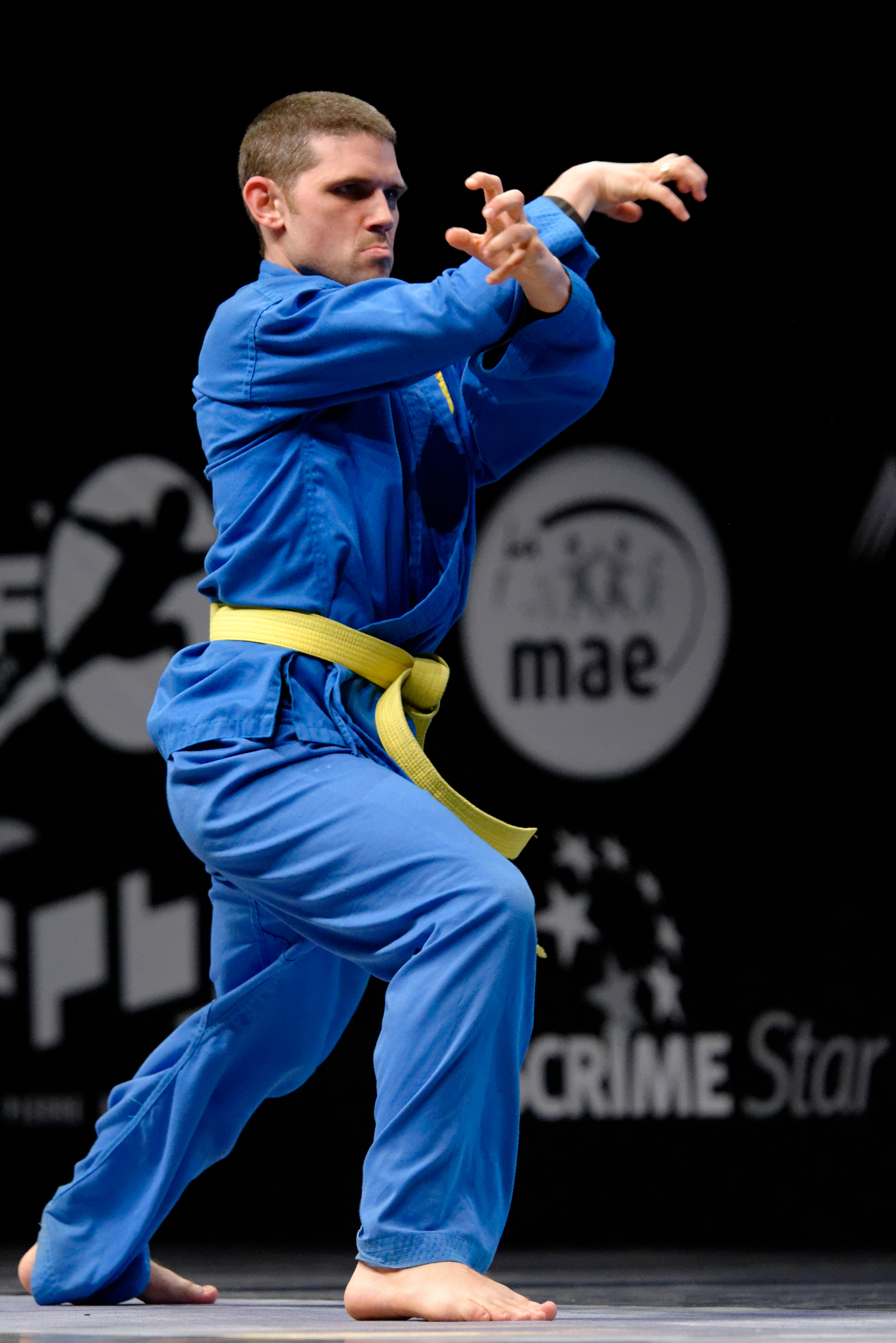 Vovinam demonstration at the 2014 Master de Fleuret Melun Val de Seine.